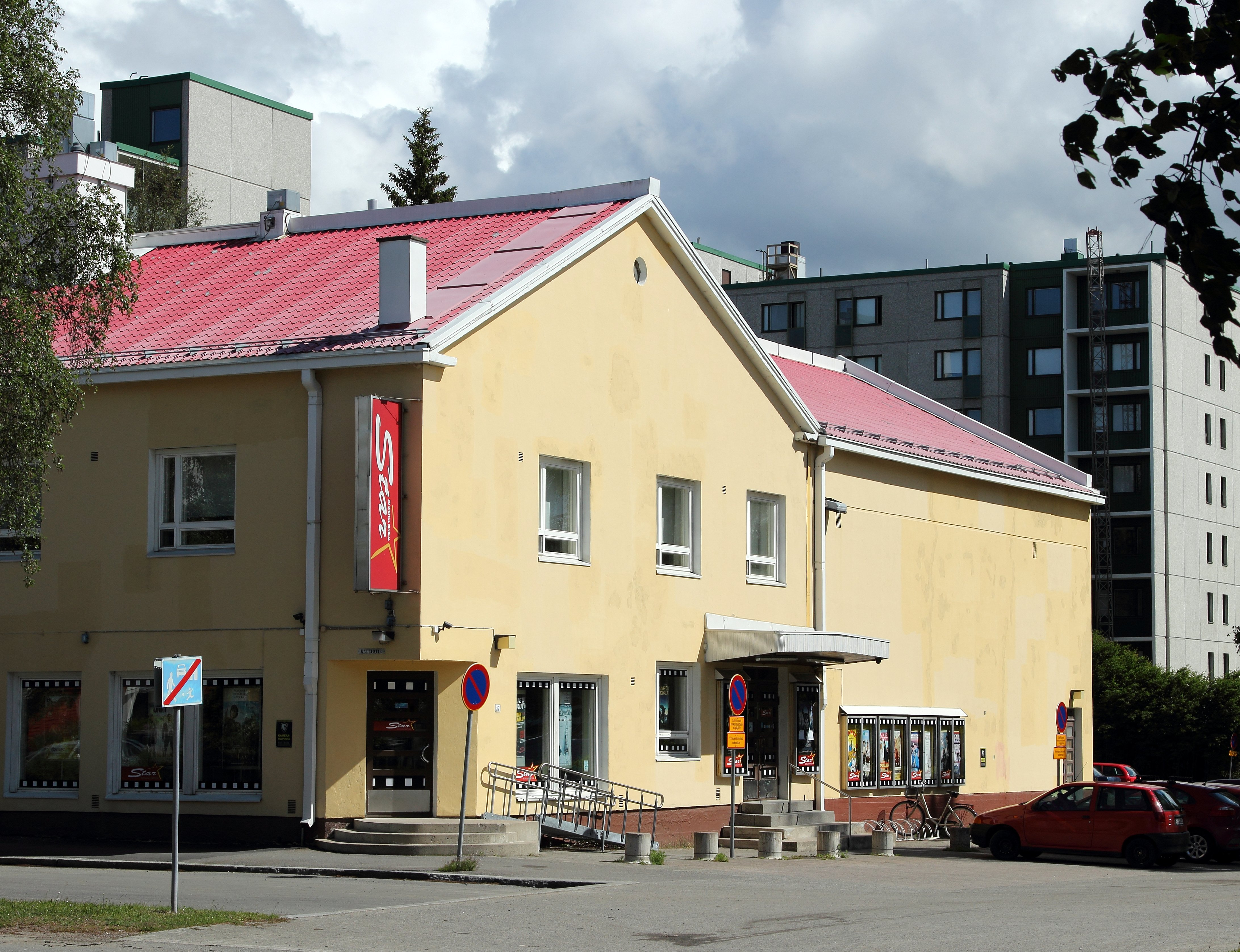 Star is a cinema in the Tuira neighbourhood in Oulu.